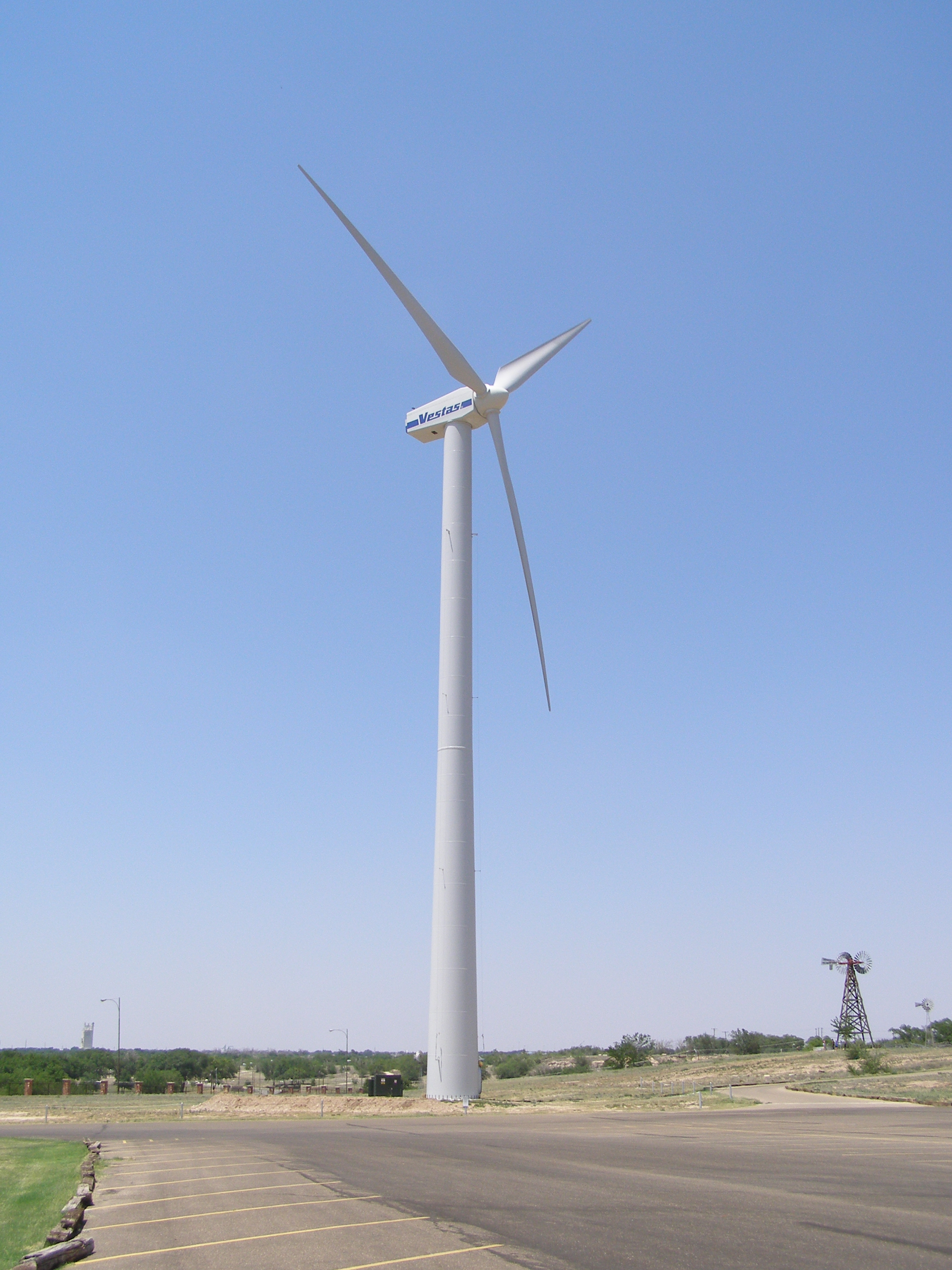 Vestas V47 wind turbine with double windmill in background. American Wind Power Center, Lubbock, TX